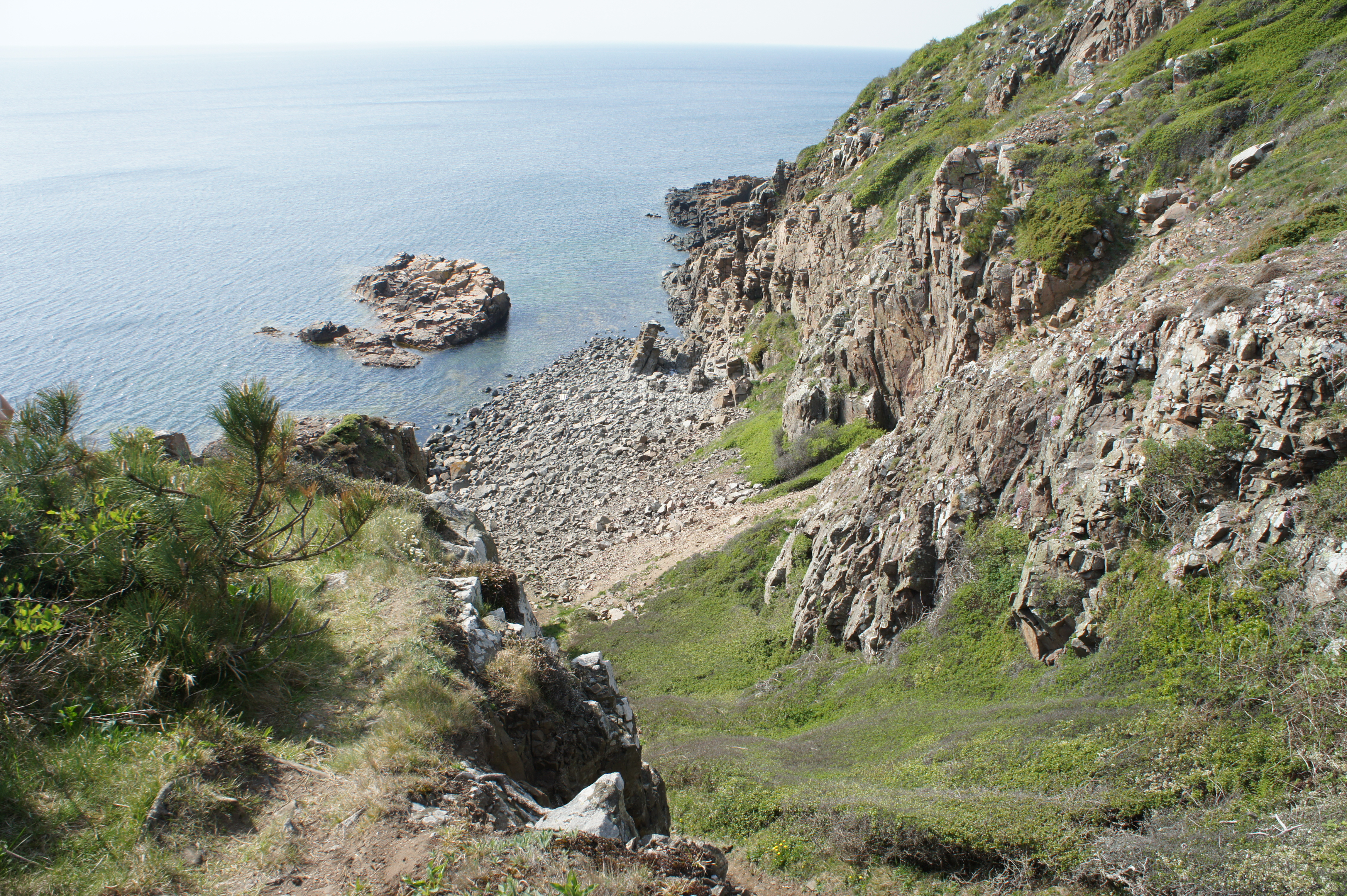 The slope of Palnatoke, Kullaberg, Sweden